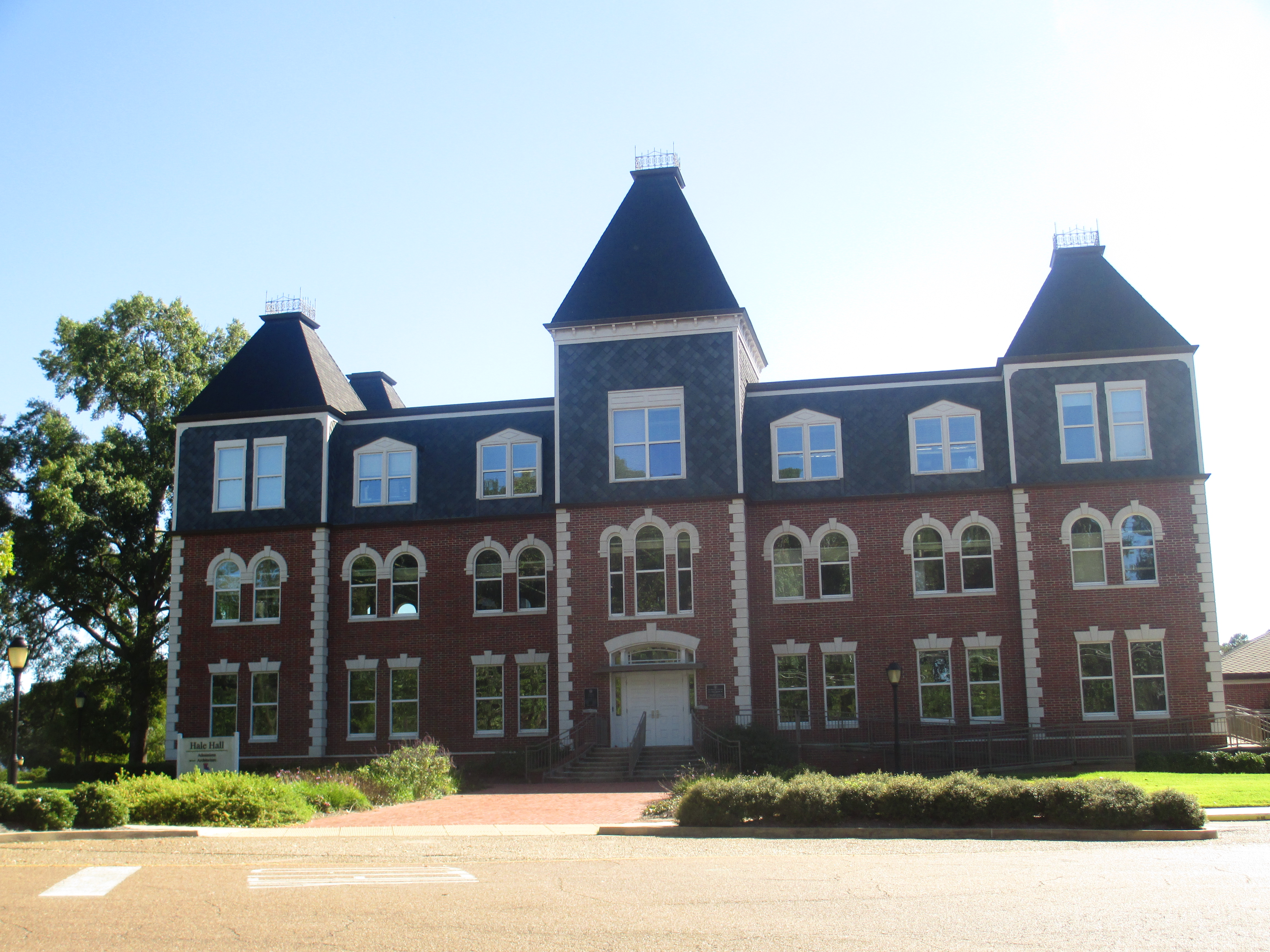 I took photo with Canon camera at LA Tech University in Ruston with a Canon camera.